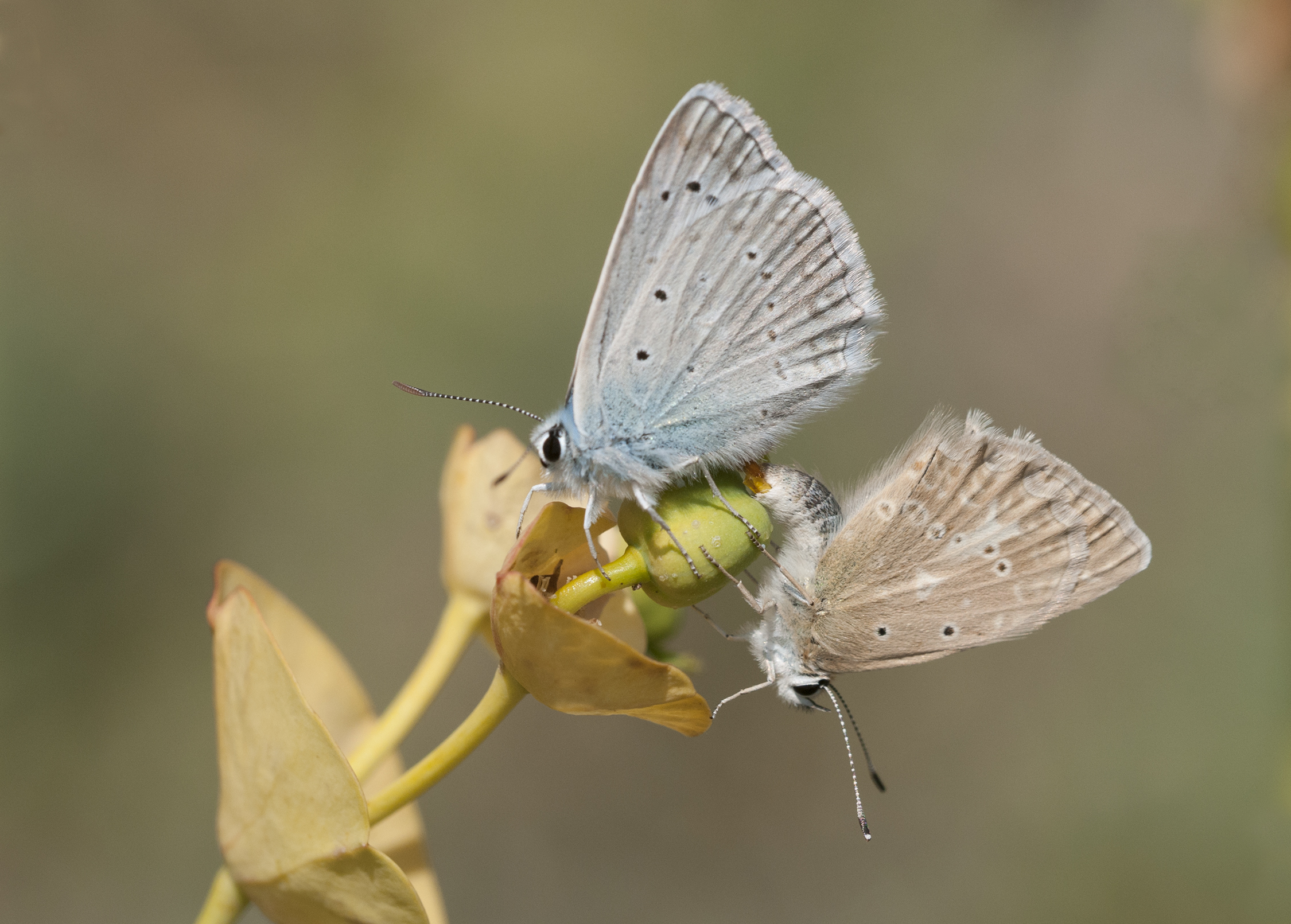 A mating couple of Meleager's Blue (Polyommatus daphnis). (male on the left, female on the right). Aladağlar Nat. Park, Çamardı - Niğde, Turkey.